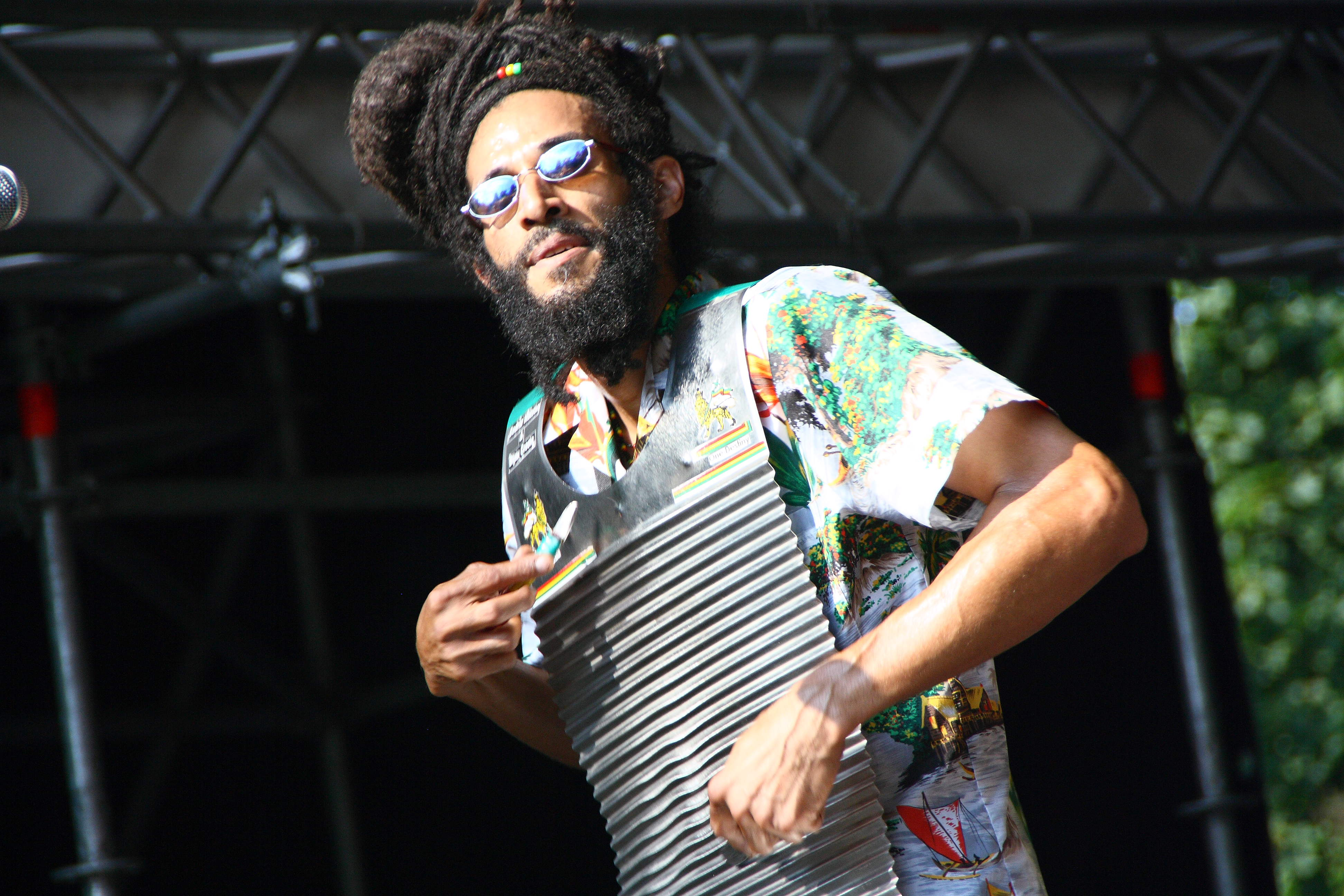 Cedric Watson & Bijoux Creole at TFF.Rudolstadt 2010